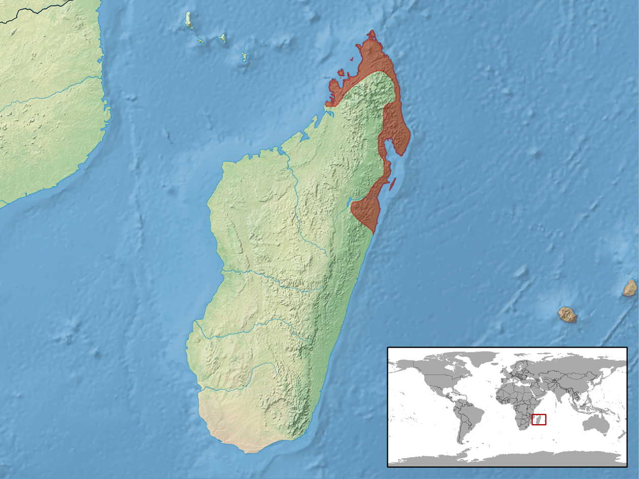 geographic distribution of Furcifer pardalis (Native: Madagascar / Introduced: Mauritius (Mauritius (main island)); Réunion)